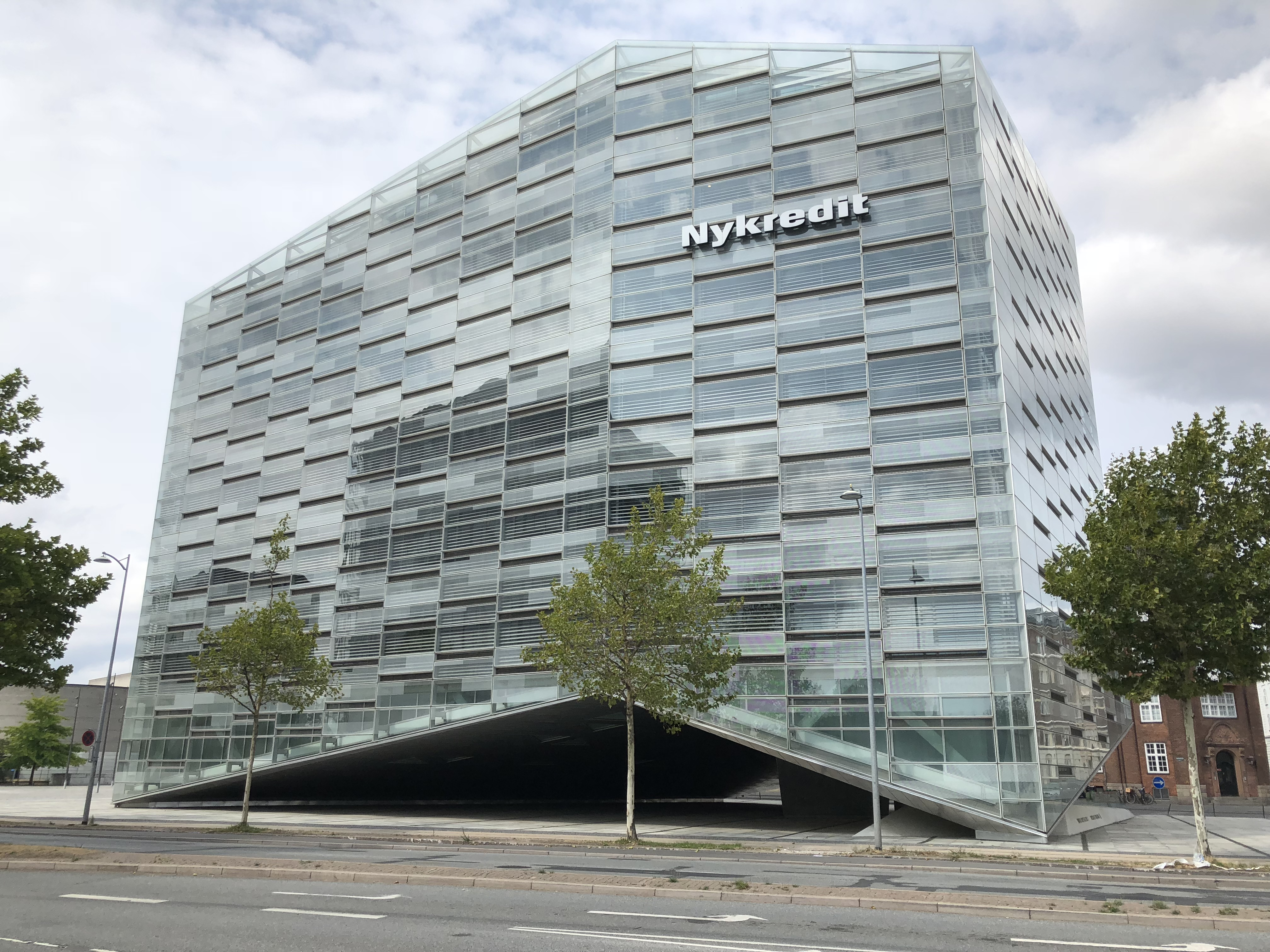 The Krystallen (Crystal) building of the Nykredit headquarters, viewed from across the Kalvebod Brygge road.